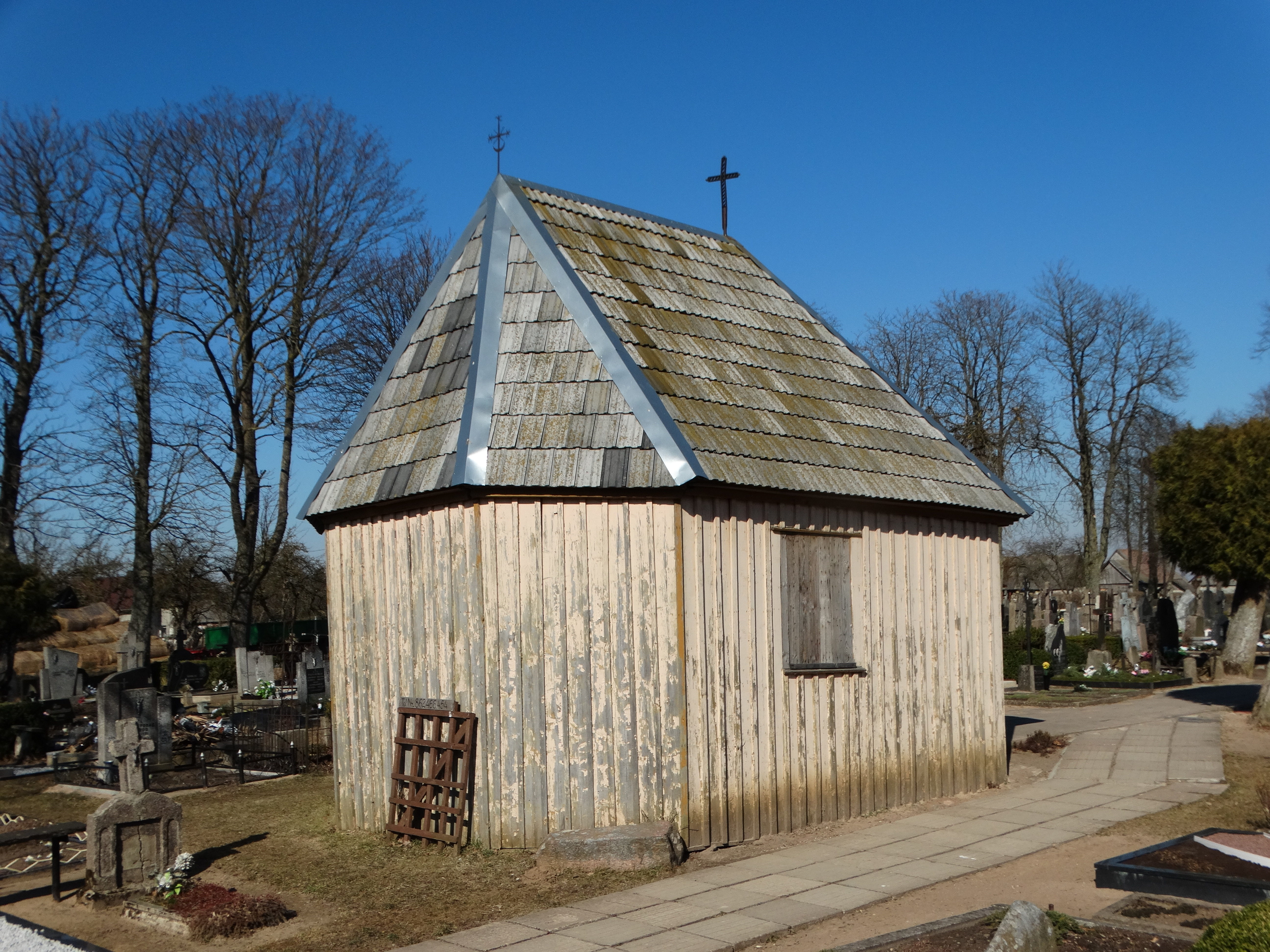 Cemetery chapel, Vaiguva, Kelmė district, Lithuania